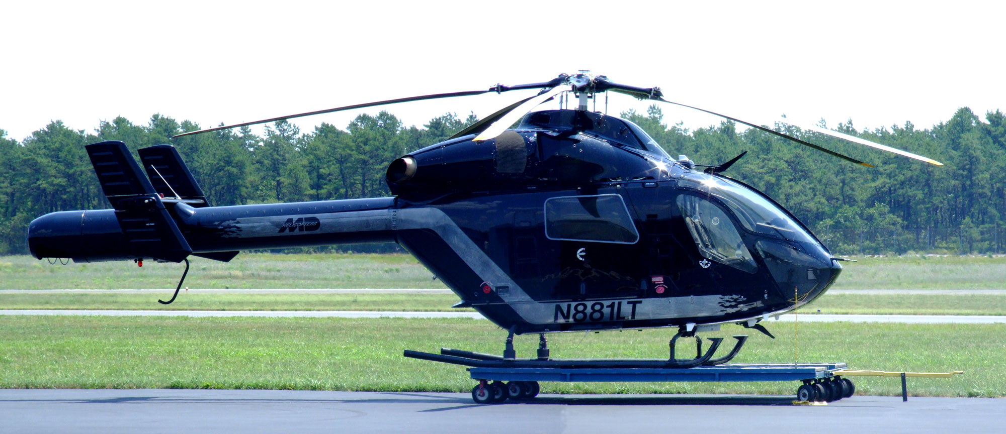 Own photo. MD 900 N881LT